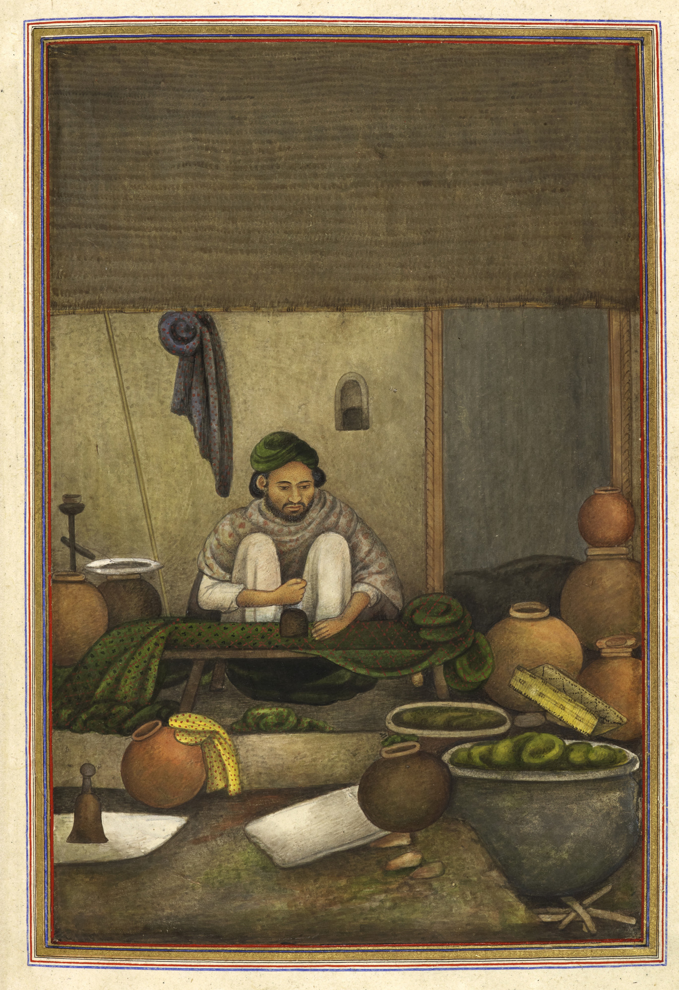 ‘Chipi (or chimba), a cloth printer. Printing green cloth with a red geometric design.